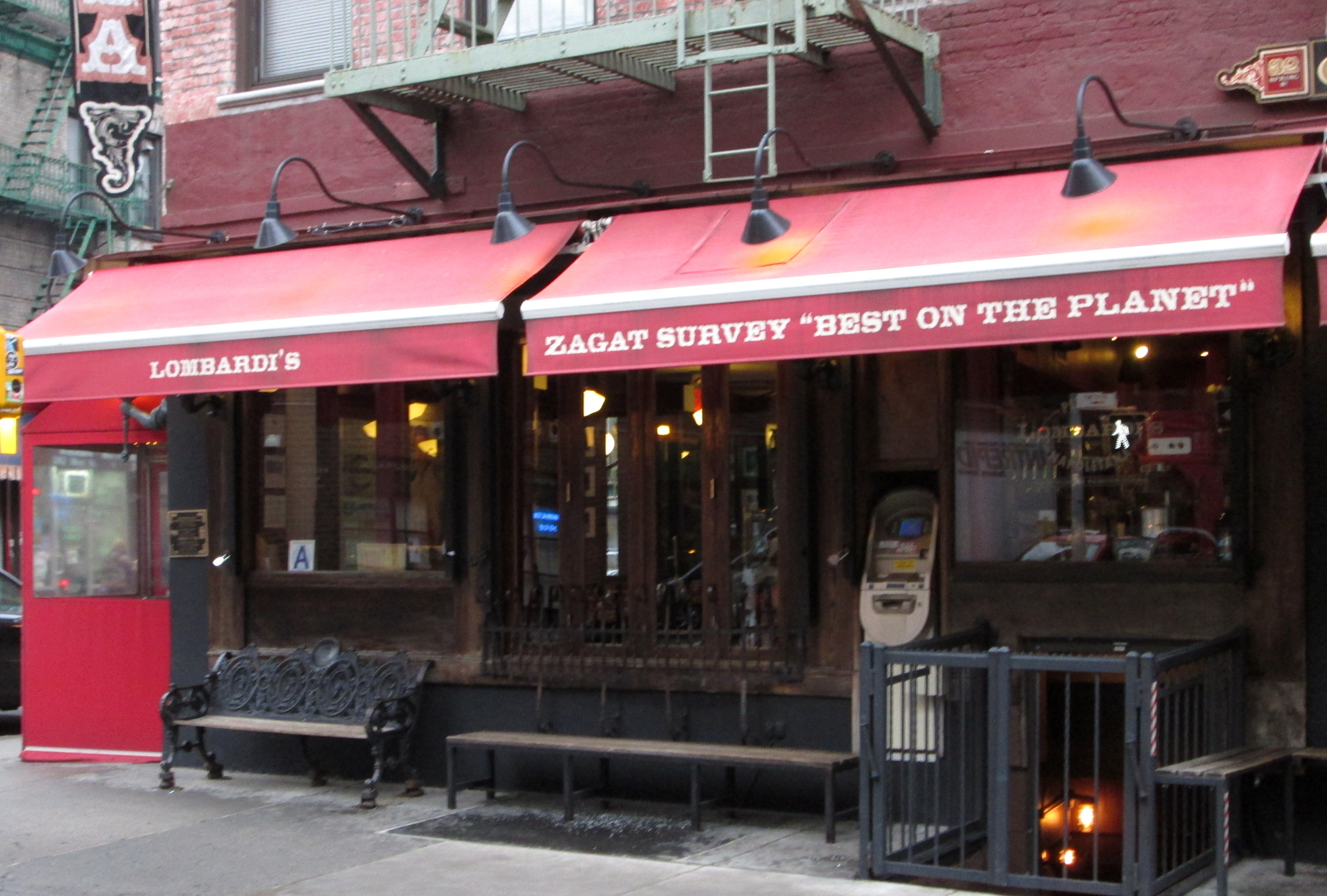 Lombardi's Pizza, located at 32 Spring Street on the corner of Mott Street in the Nolita neighjborhood fo Manhattan, New York City was originally located at 53 1/2 Spring Street. In 1905 Gennaro Lombardi converted his grocery store into a pizzeria, and had a loyal clientele, including Italian tenor Enrico Caruso. The restaurant was passed to Gennaro's son George, but closed in 1984, only to re-open a few years later down the block, run by one of Gennaro's grandsons. (Source: Inside the Apple (2009))